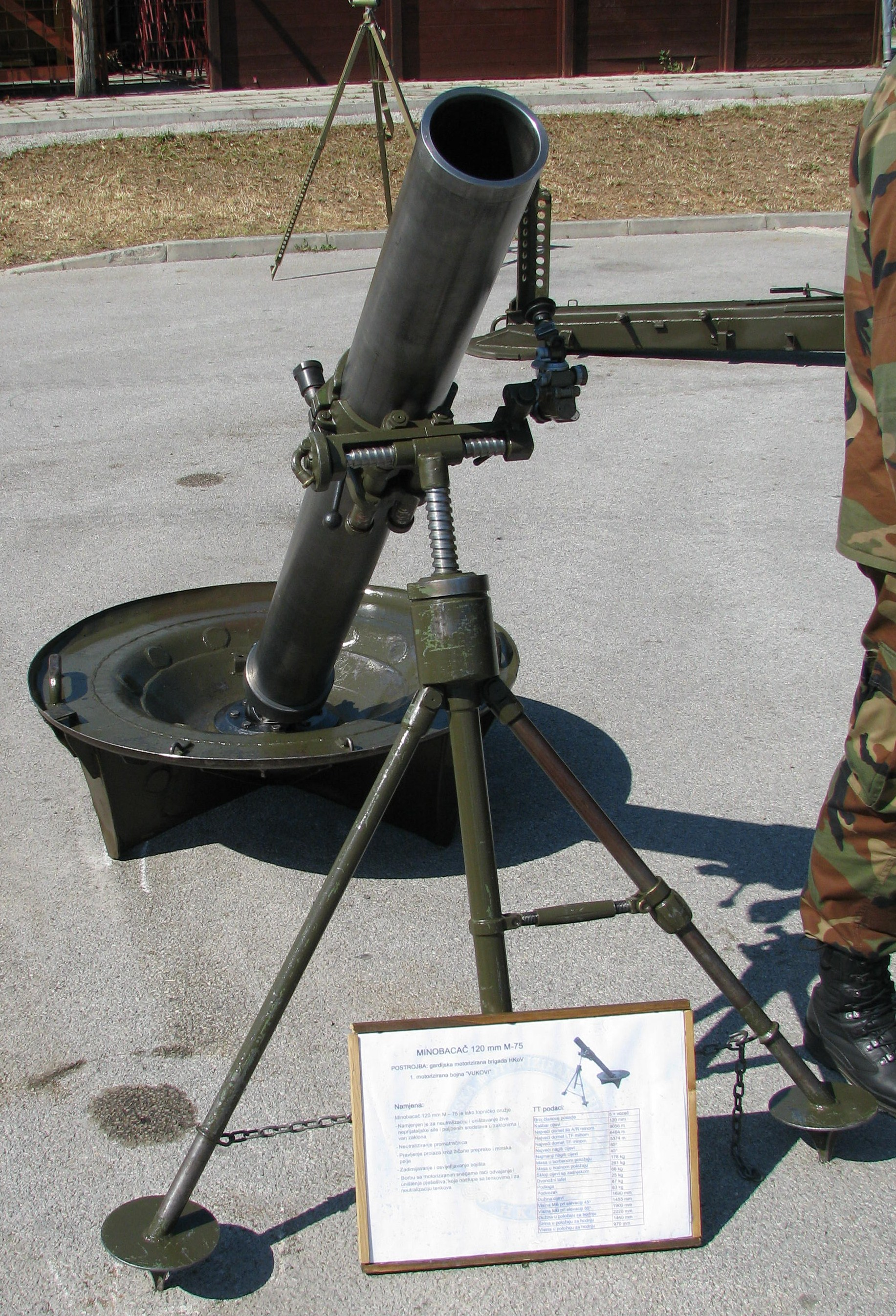 Mortar 120 mm M-75 of Croatian Army